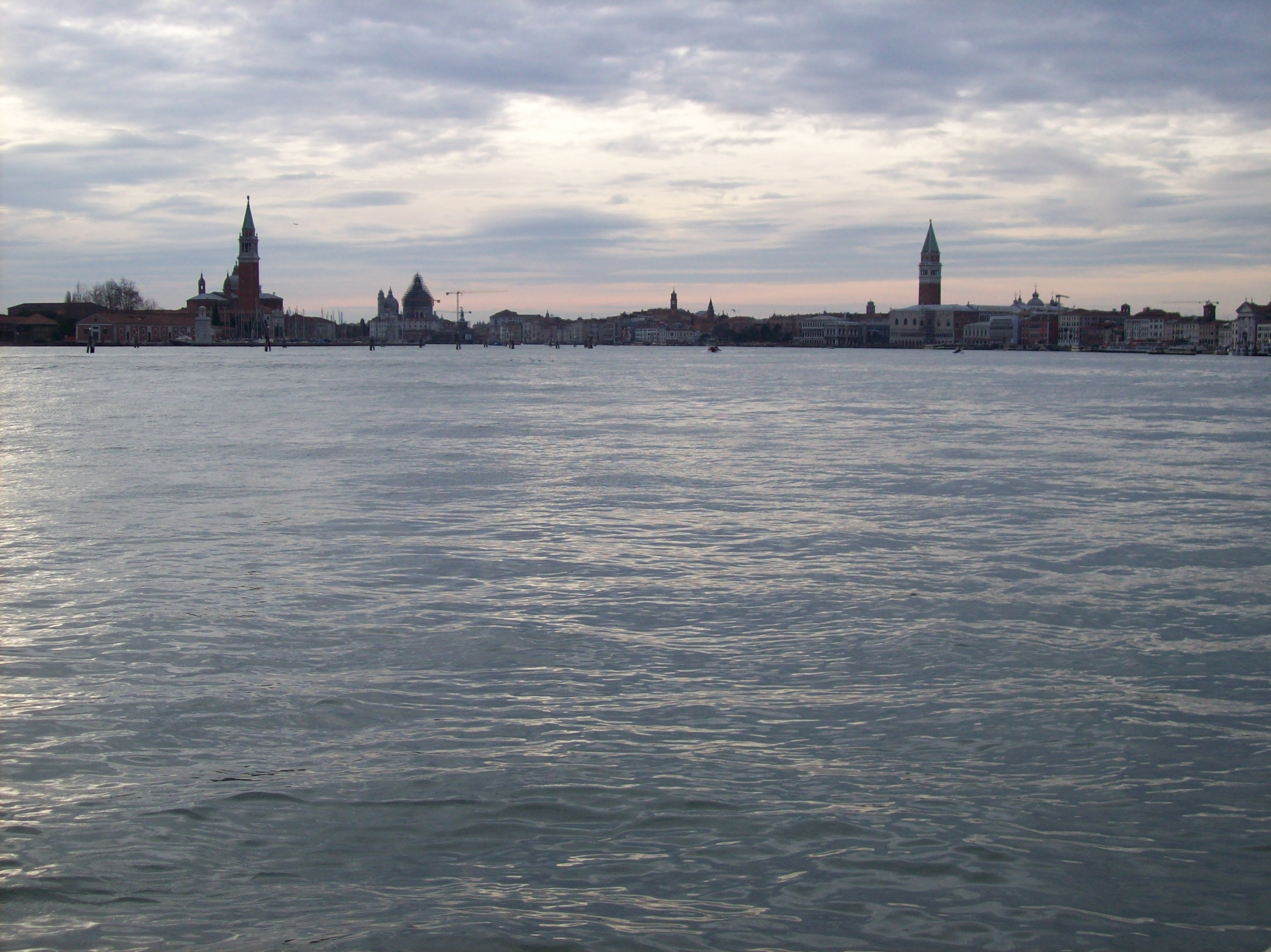 The city centre of Venice.